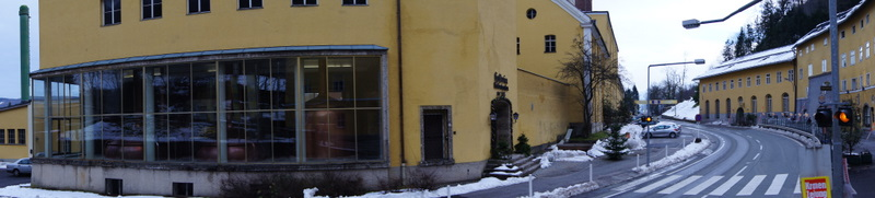 Ansicht